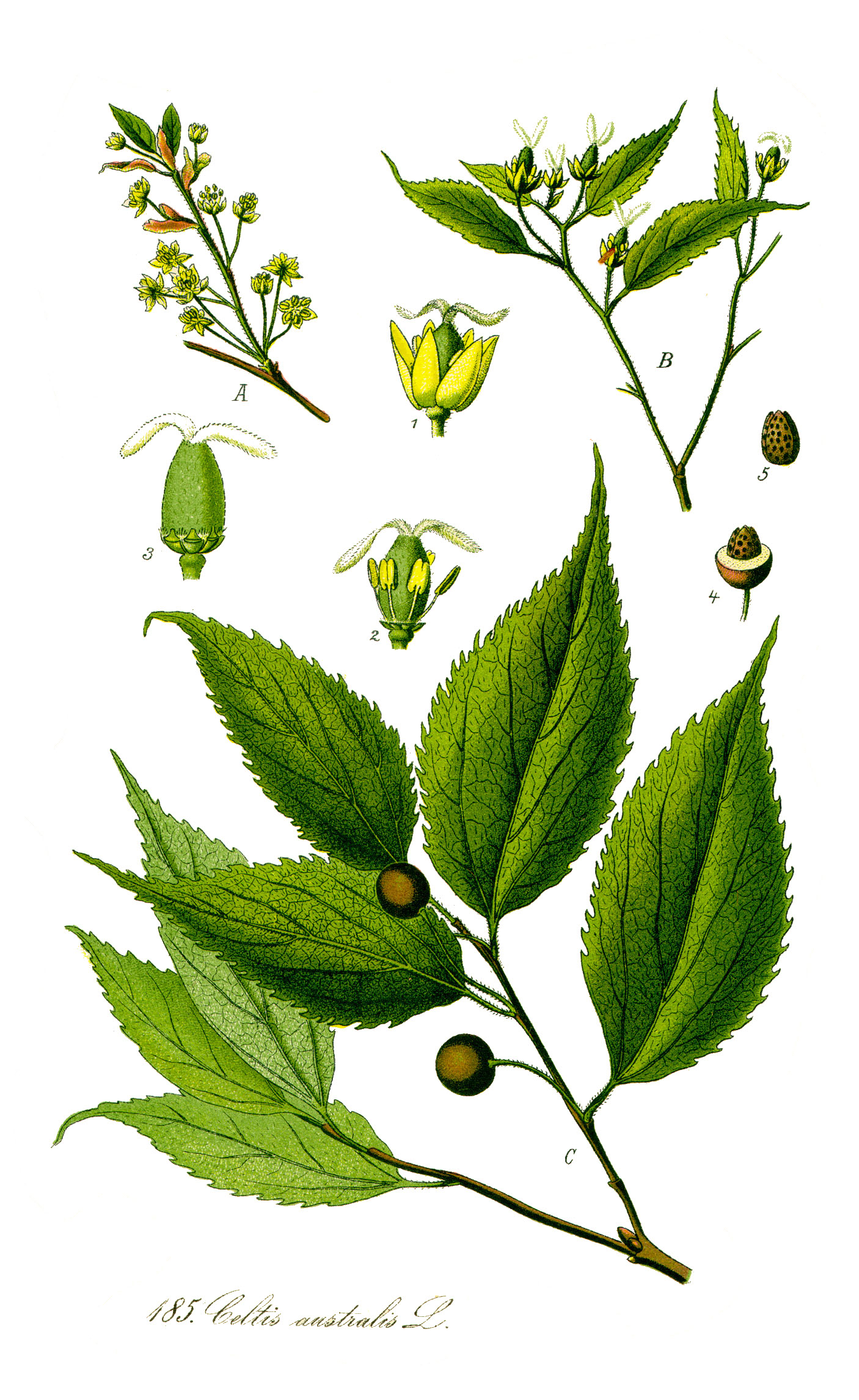 Celtis australis